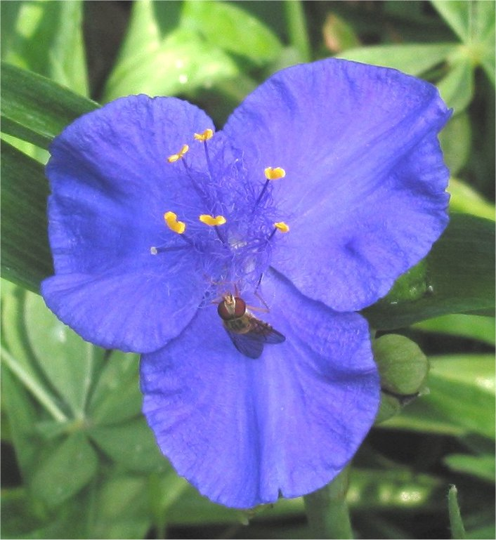 Tradescantia virginiana